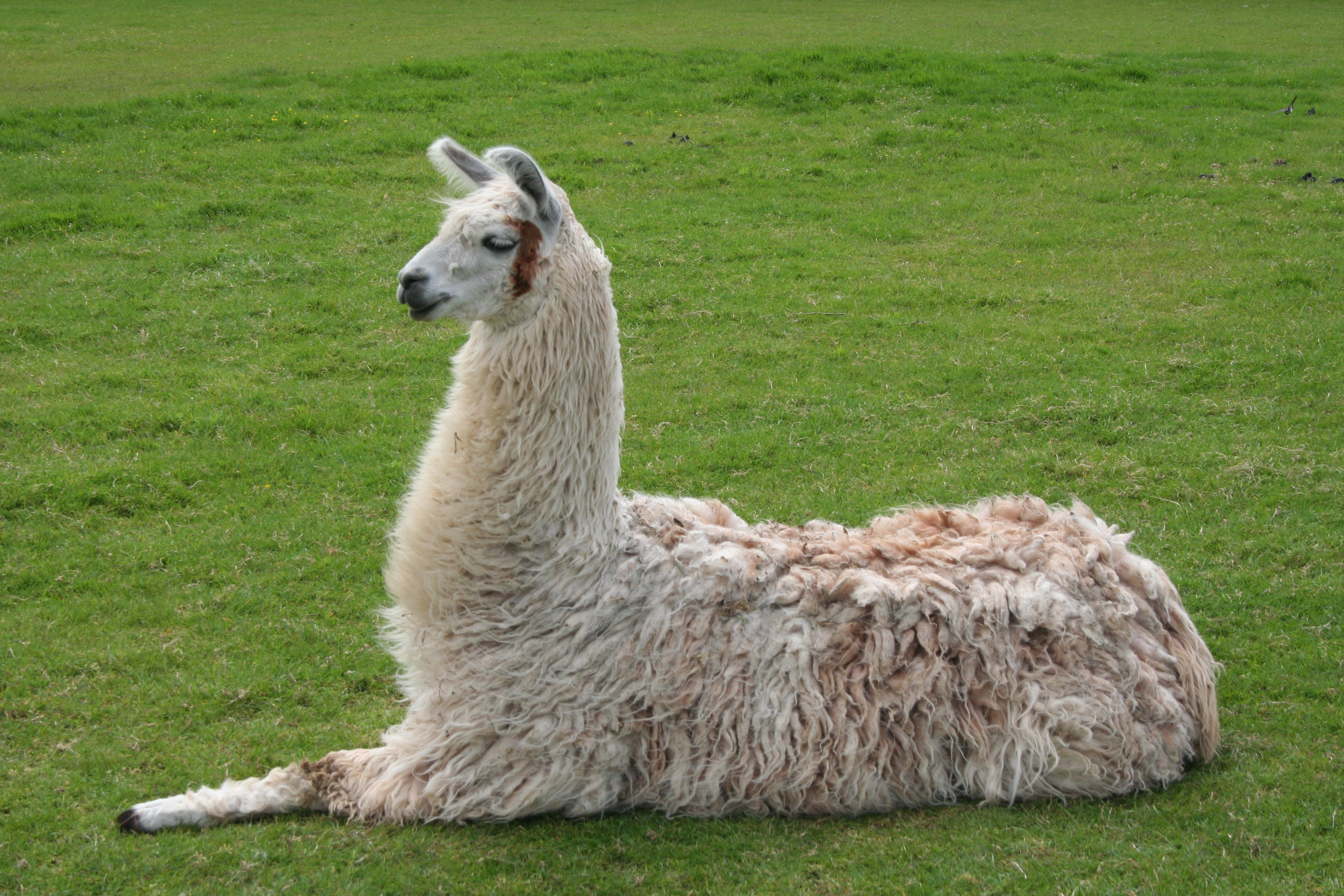 A Llama lying down, also called "kushing"